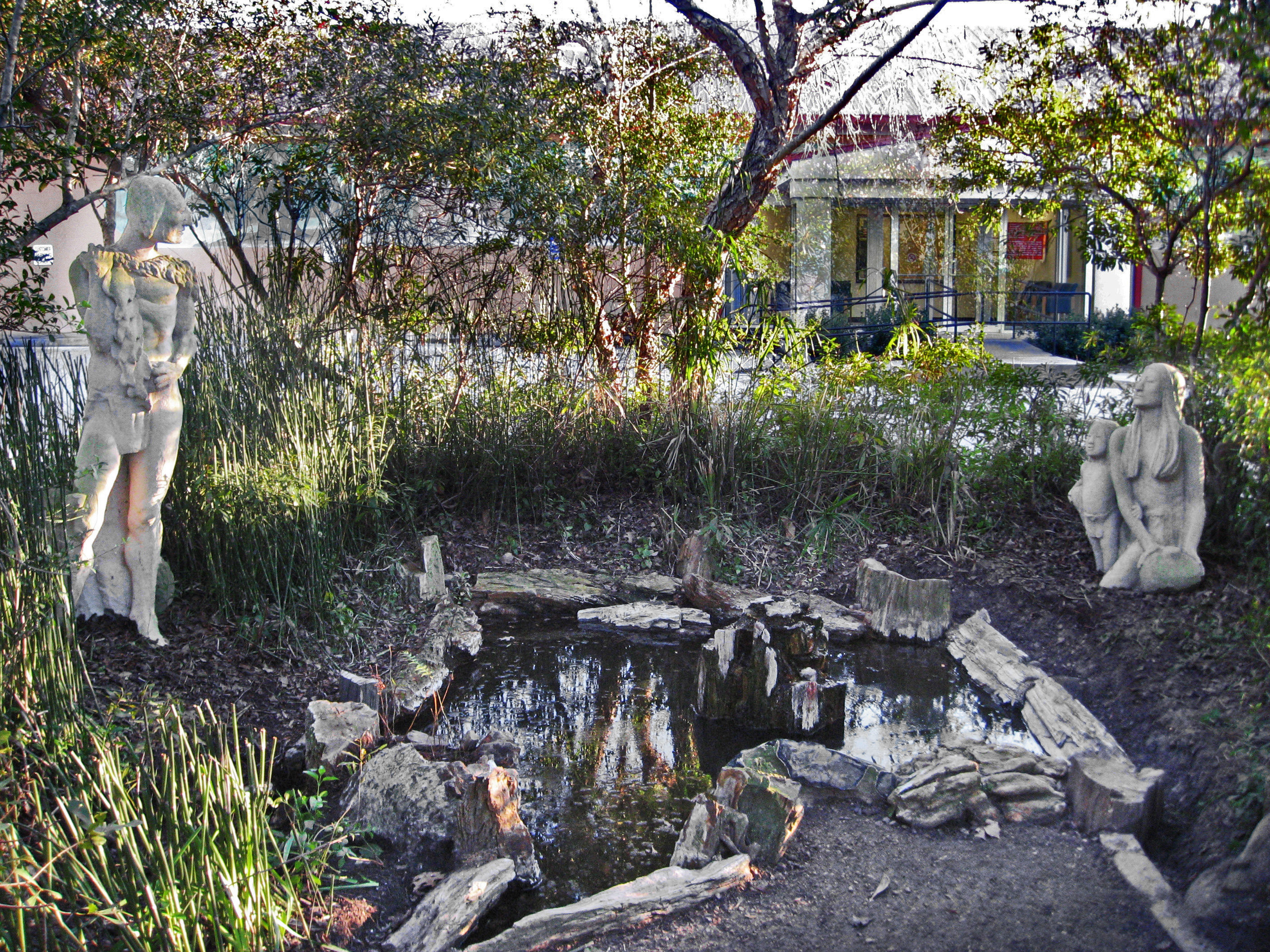 This tribute to the Bidai tribe is in a wooded area called Founders Park in Huntsville, Texas. Huntsville is thought to be a trading location for several tribes, but the Bidai were local.